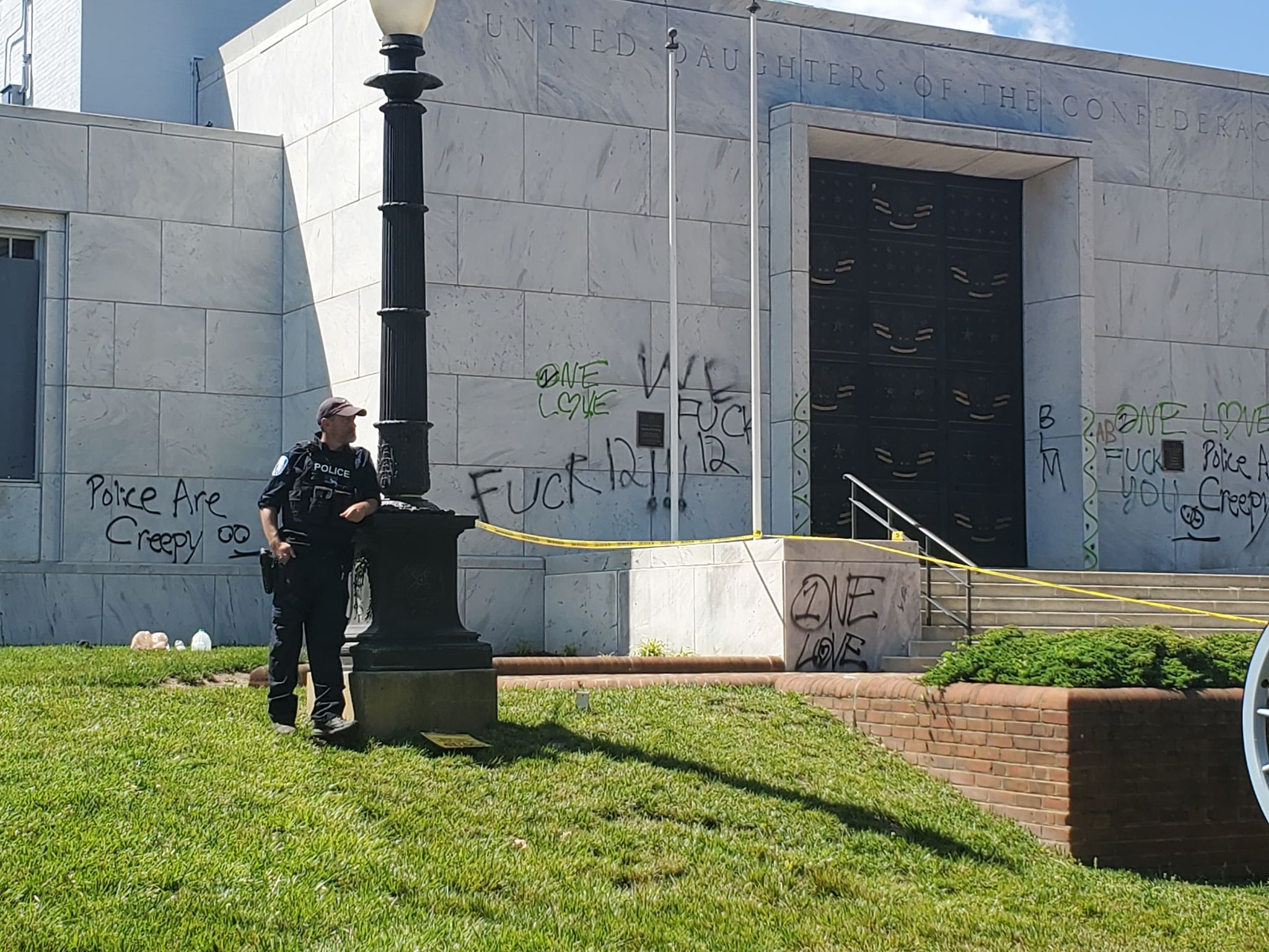 Photo I took of protests in Richmond, Virginia in relation to the George Floyd protests. Photo by Tyler Walter.